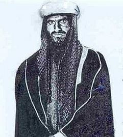 Sultan Al-Otaibi